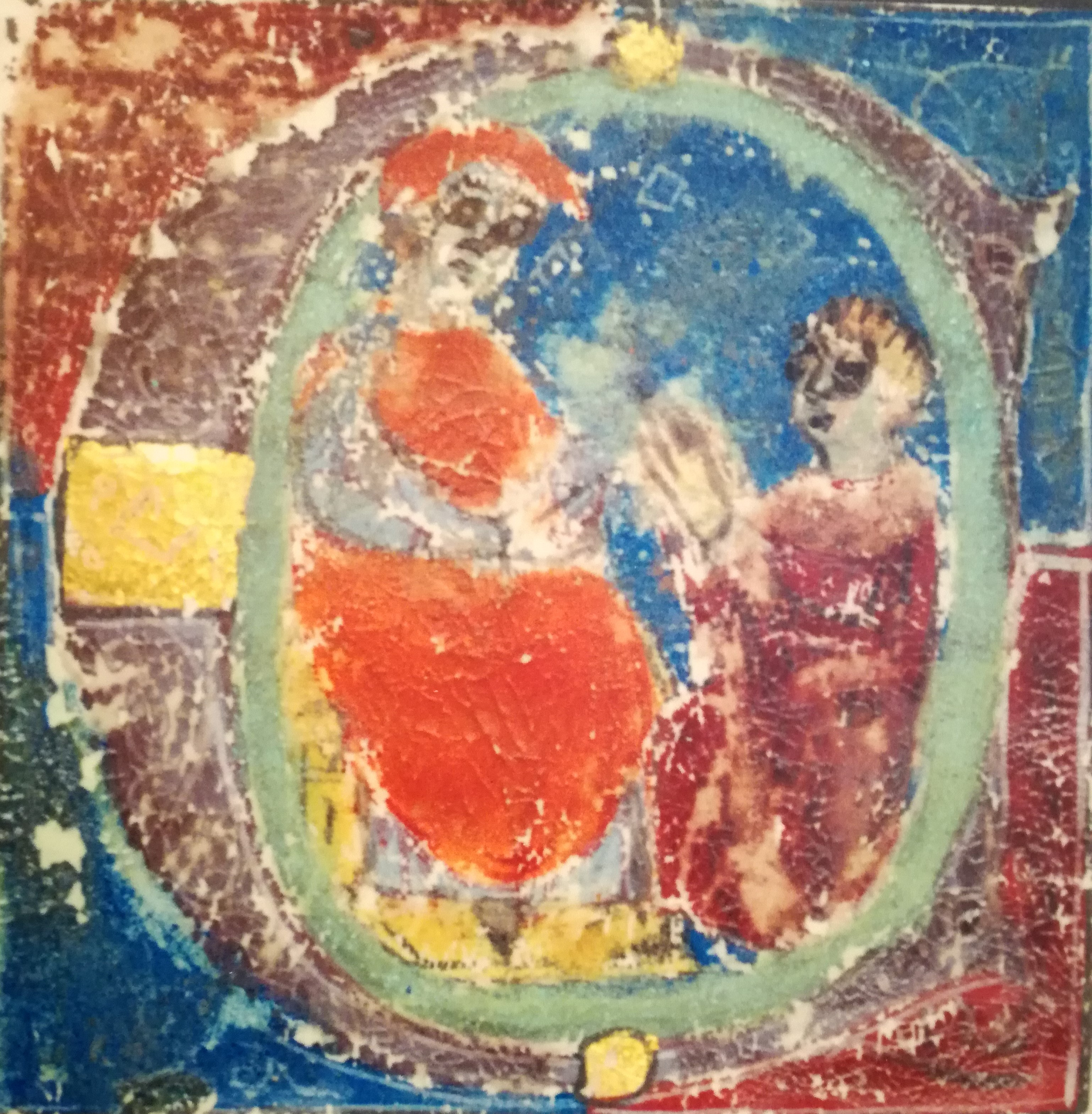 Illumination from a manuscript depicting Mladen II Šubić of Bribir